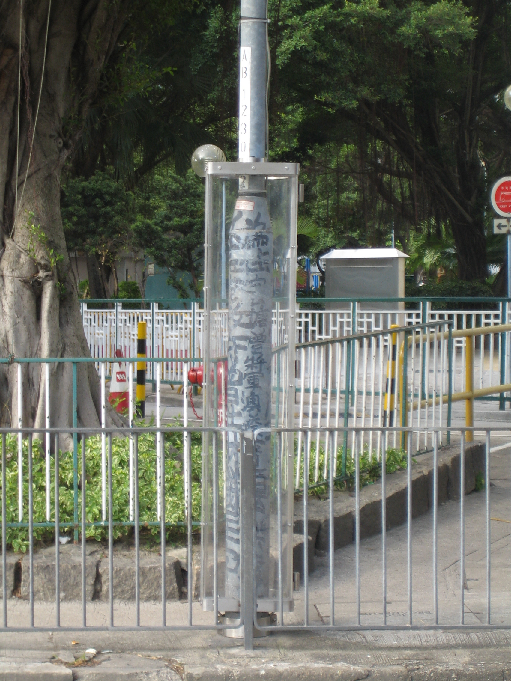 This image is Graffiti of Tsang which is taken from Ping Shek Estate, Hong Kong. If you have any questions about the licensing (like cc-by-sa, GFDL), or you want to republish the image without using the licensing shown as below, you are welcome to leave a message on the User Talk Page of my Chinese Wikipedia account. 中文（香港）: 這照片是香港九龍皇帝曾灶財墨跡，拍攝地點是香港九龍坪石邨近黃石樓位置。 如你對這照片版權許可協議 (例cc-by-sa, GFDL) 有疑問，或你想把照片不用以下的版權協議轉載，歡迎你到我在中文維基百科的用戶對話頁留言。